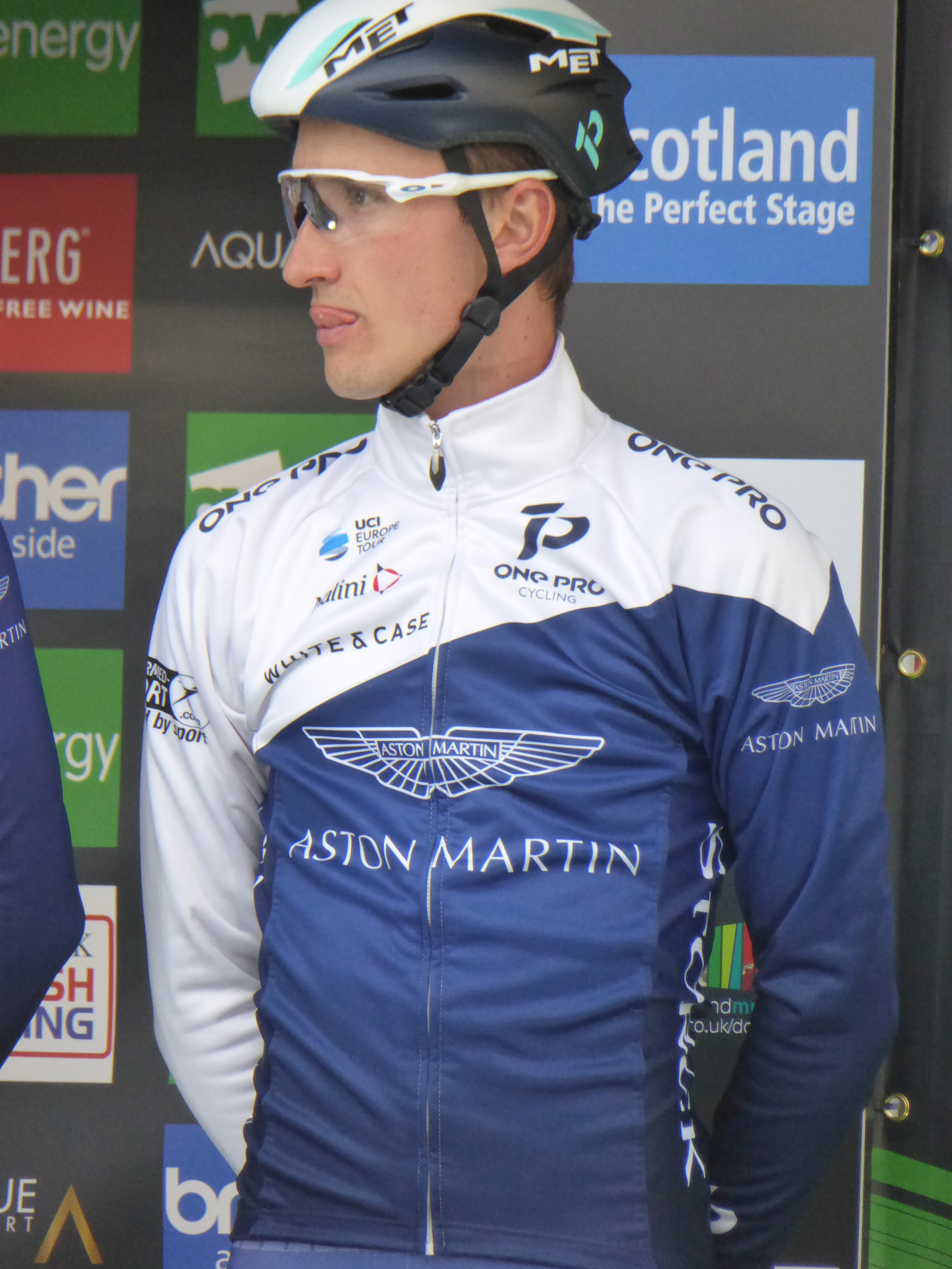 James Oram (ONE Pro Cycling), prior to Round 3 of the 2018 Tour Series in Aberdeen.